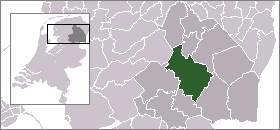 Location map of Dutch municipality in Drenthe. All images of this type by Mtcv have been released in the Public Domain by him